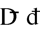 Bashkir Latin letter for [ð], corresponding to Cyrillic Ҙҙ